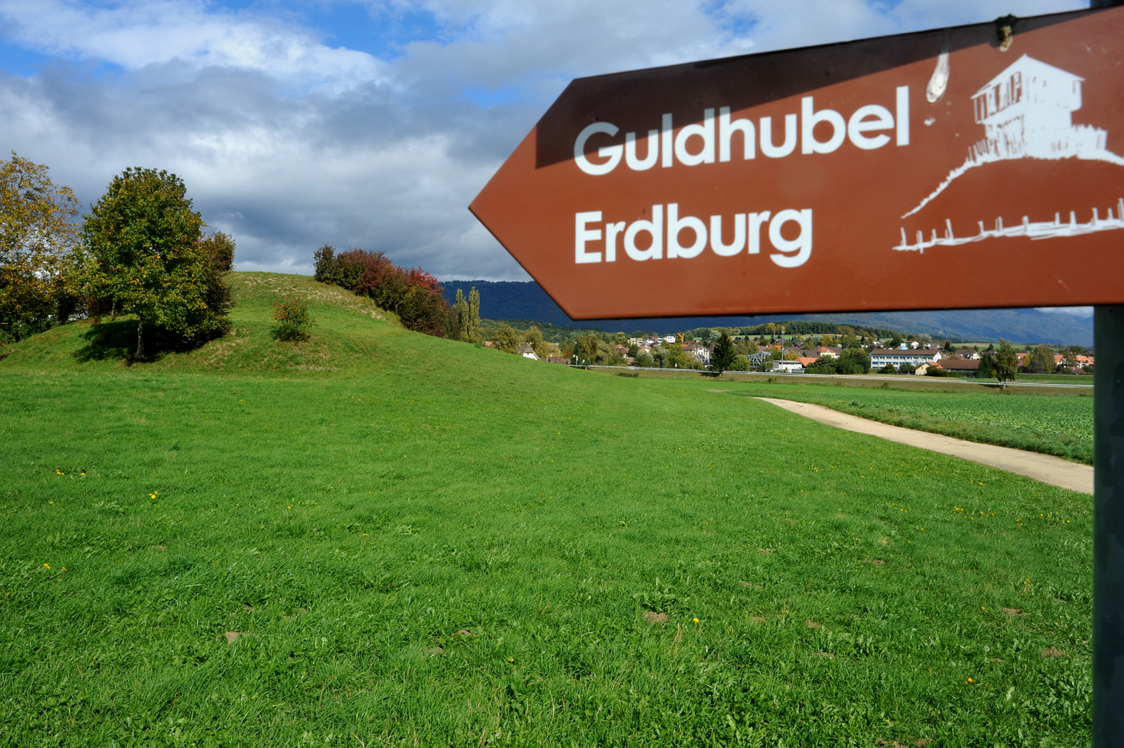 Guldhubel, earthwork of the knights of Pfeid from the high middle age near Aegerten; Bern, Switzerland.